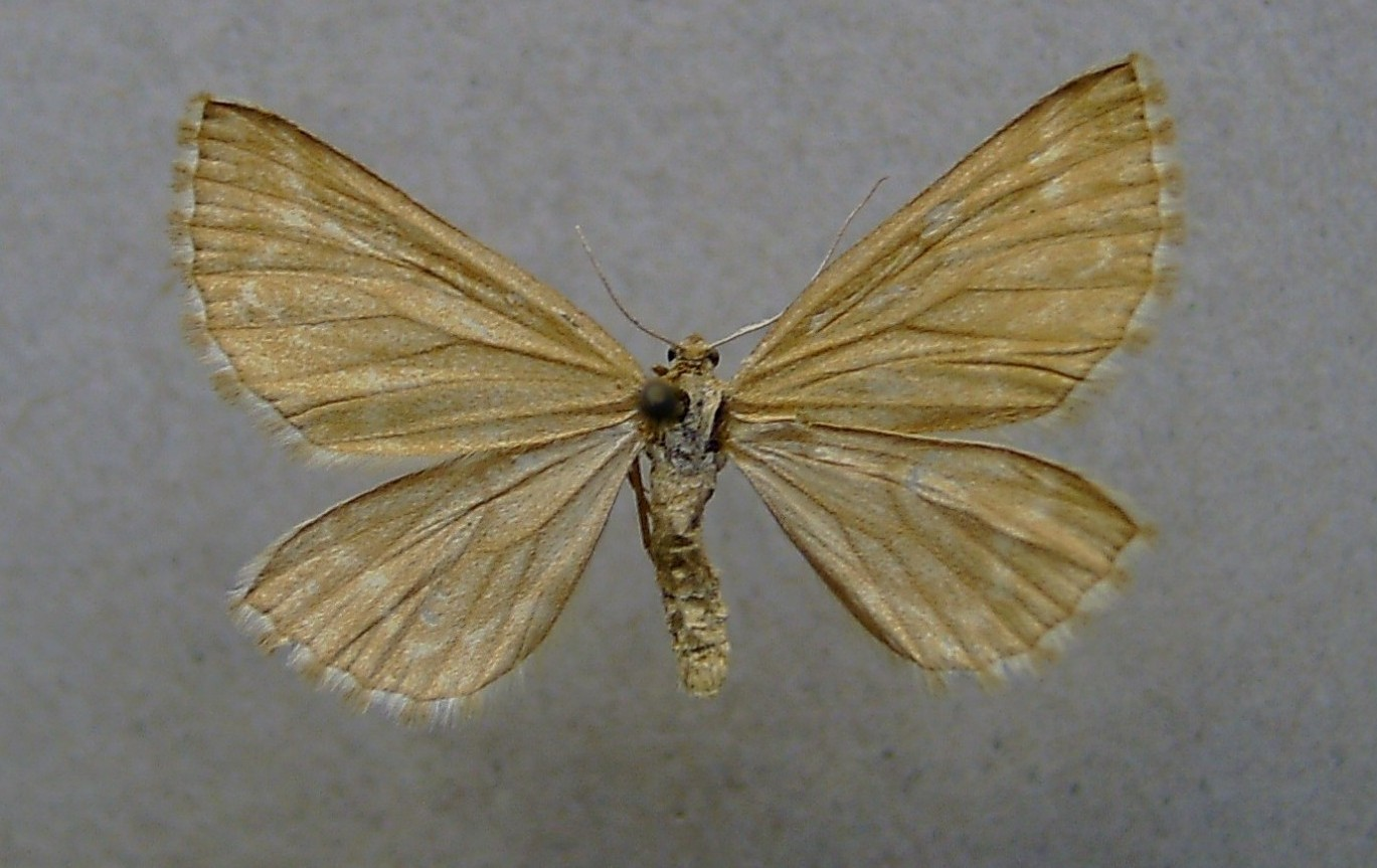 Schistostege decussata, Gramatneusiedl, Austria